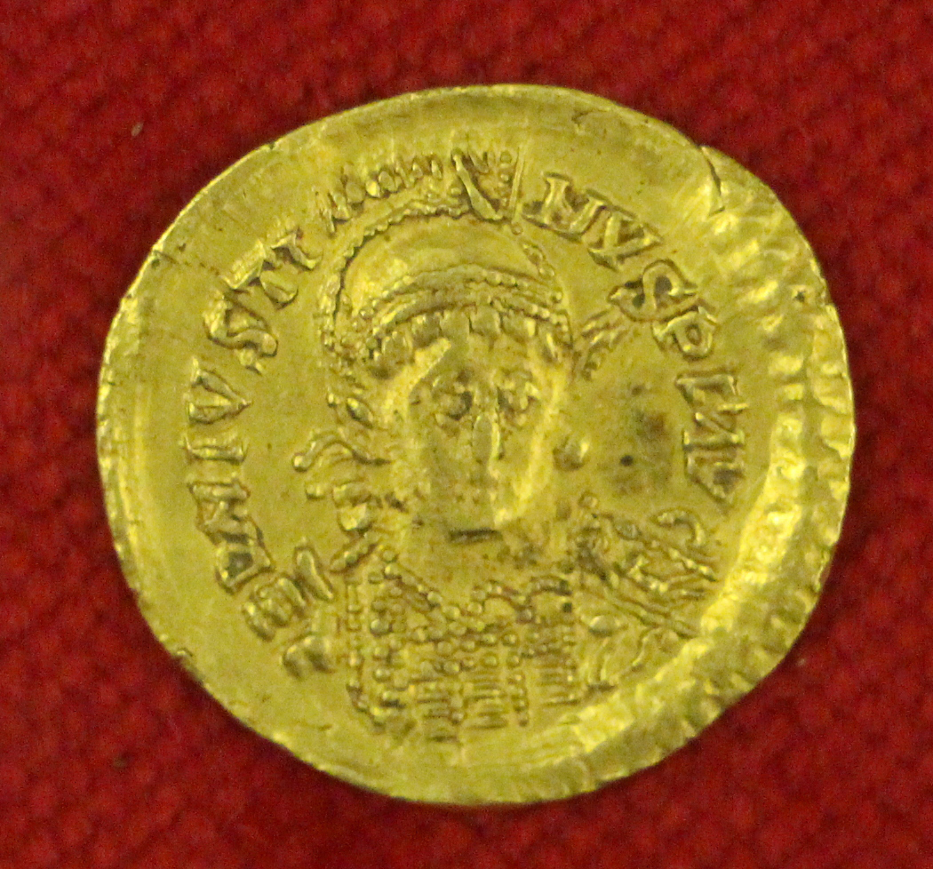 Coins in the Museo archeologico nazionale (Florence)